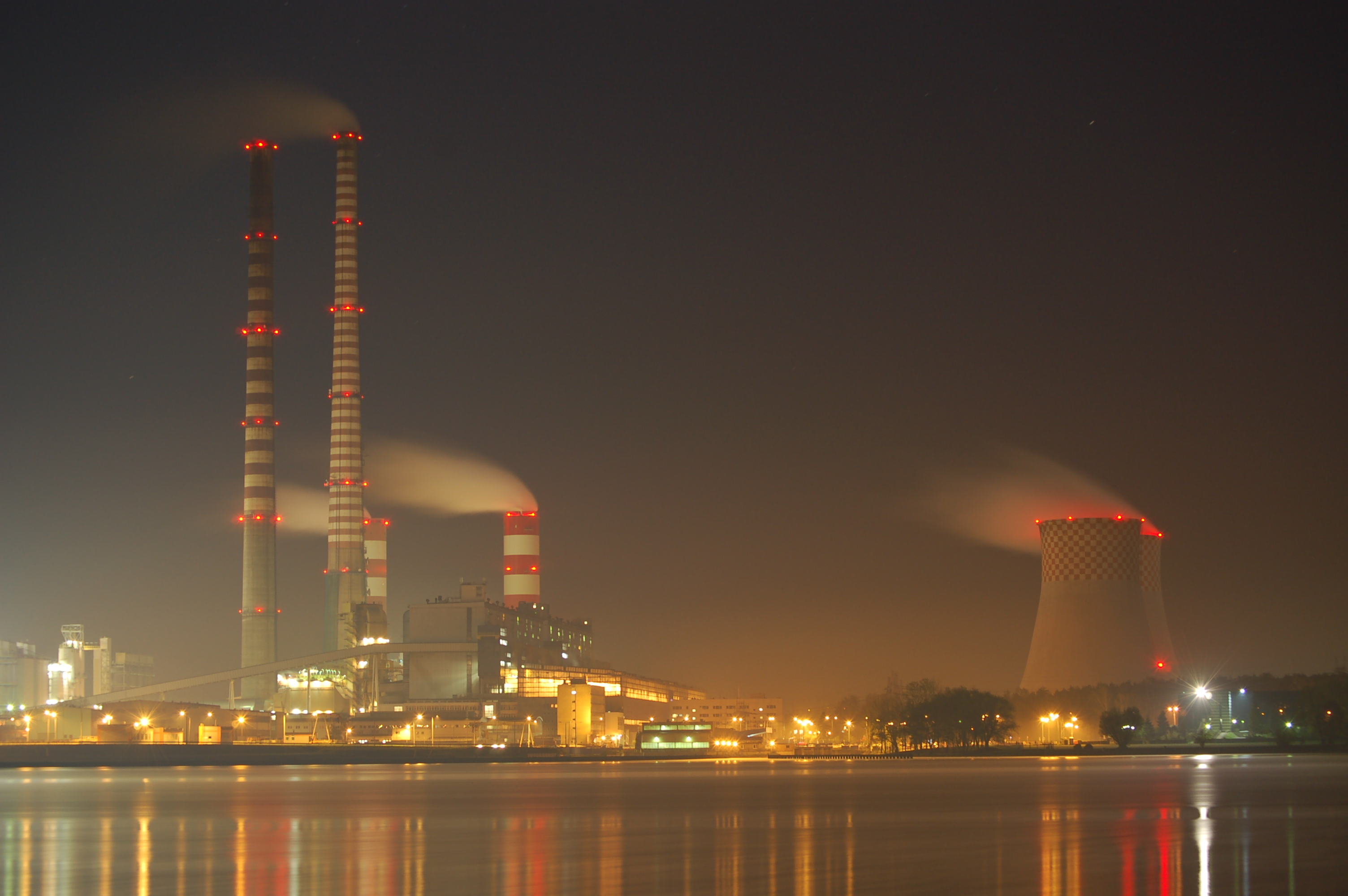 Power plant in Rybnik.